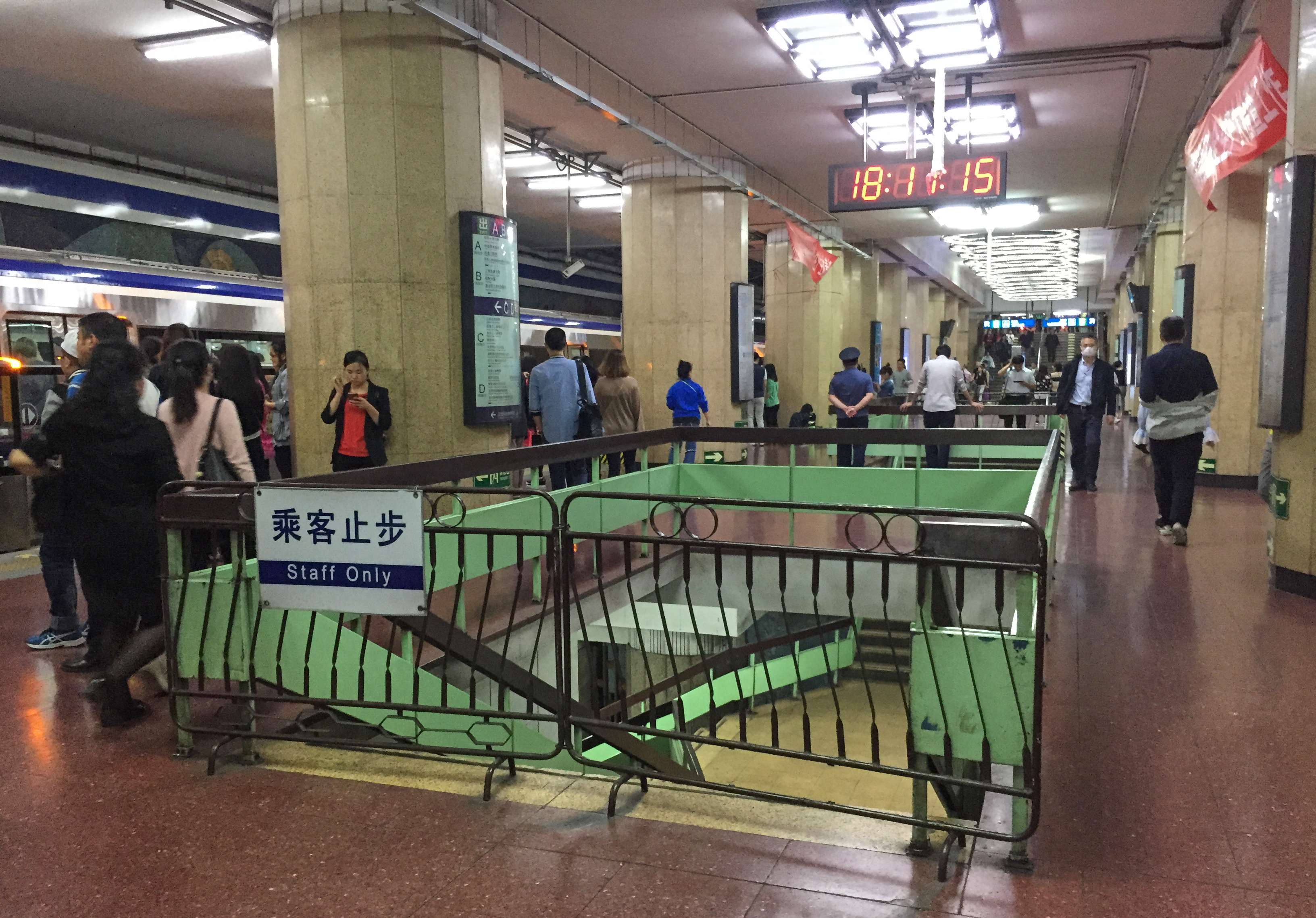 Someone is on guard.